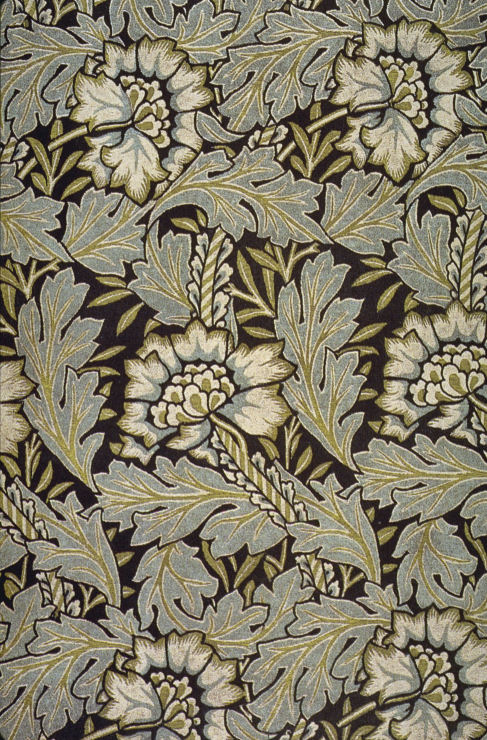 Anemone jacquard-woven silk and wool or silk damask fabric designed by William Morris. (Identification from Linda Parry: William Morris Textiles, New York, Viking Press, 1983, ISBN 0-670-77074-4)